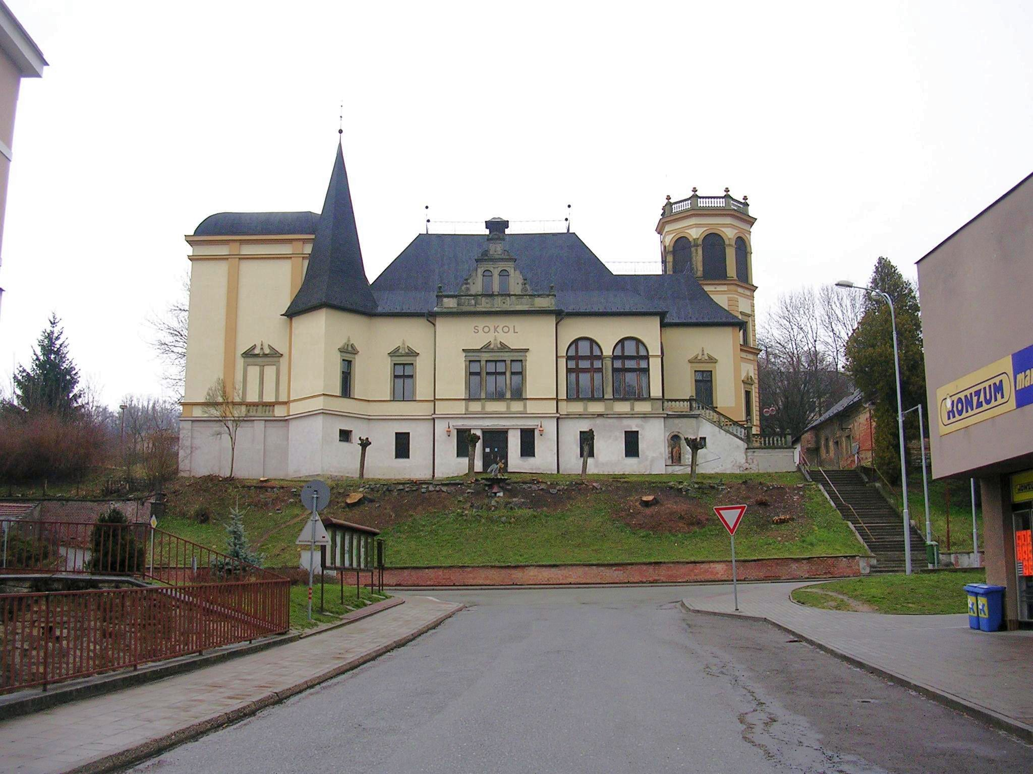 Brandýs nad Orlicí, the Czech Republic.